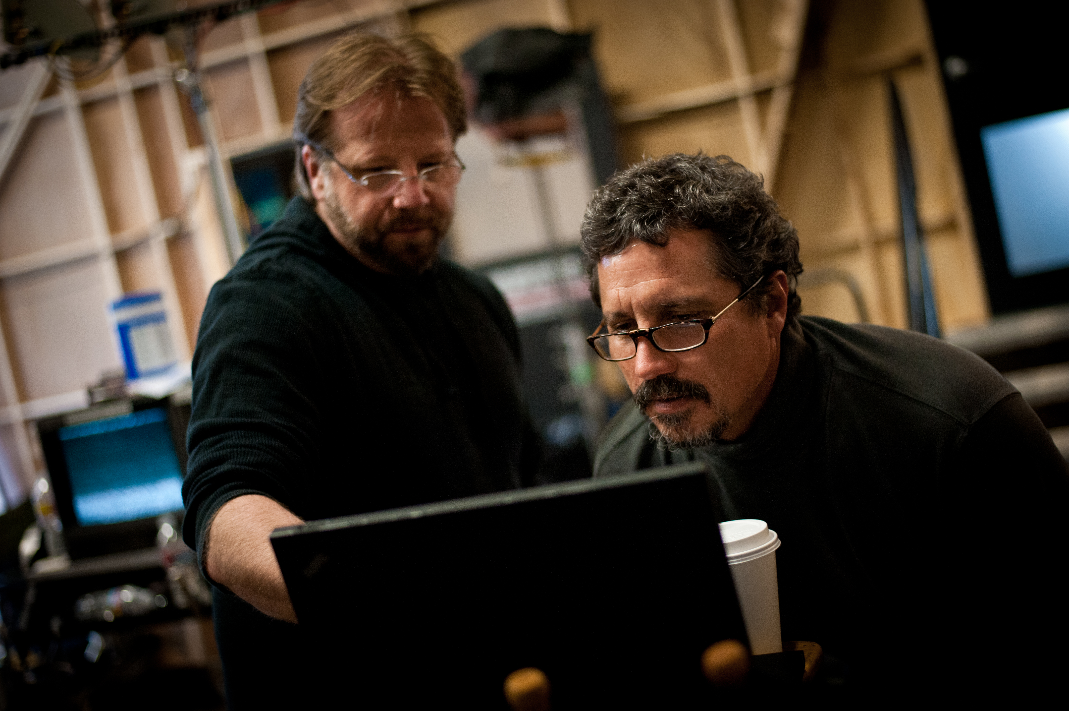 Producer Andrew Marlowe and director Rob Bowman on the set of the television series Castle.